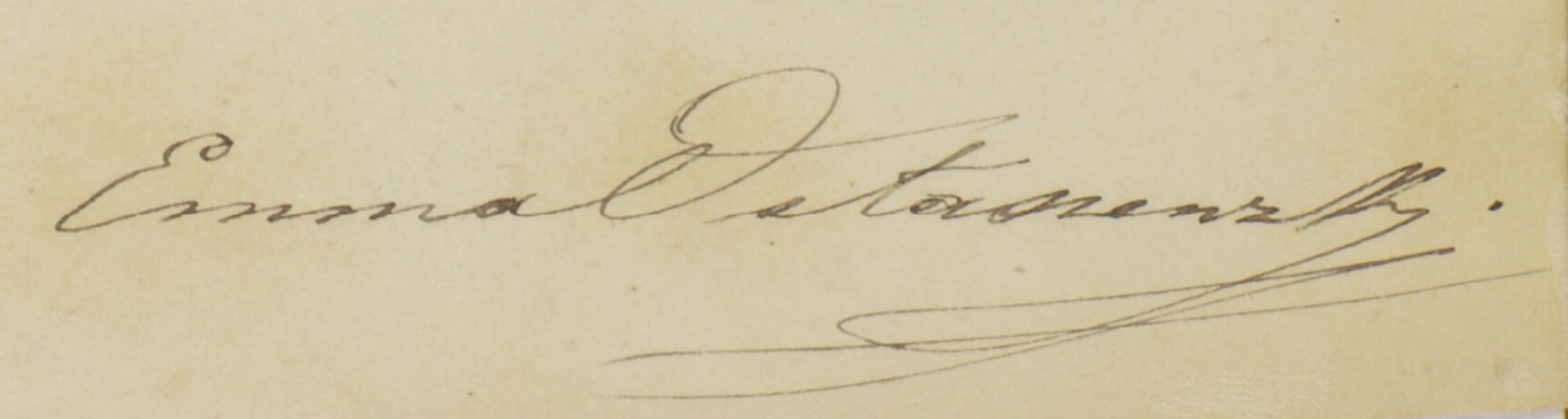 signature of Emma Ostaszewska née countess Załuska (1831-1912)